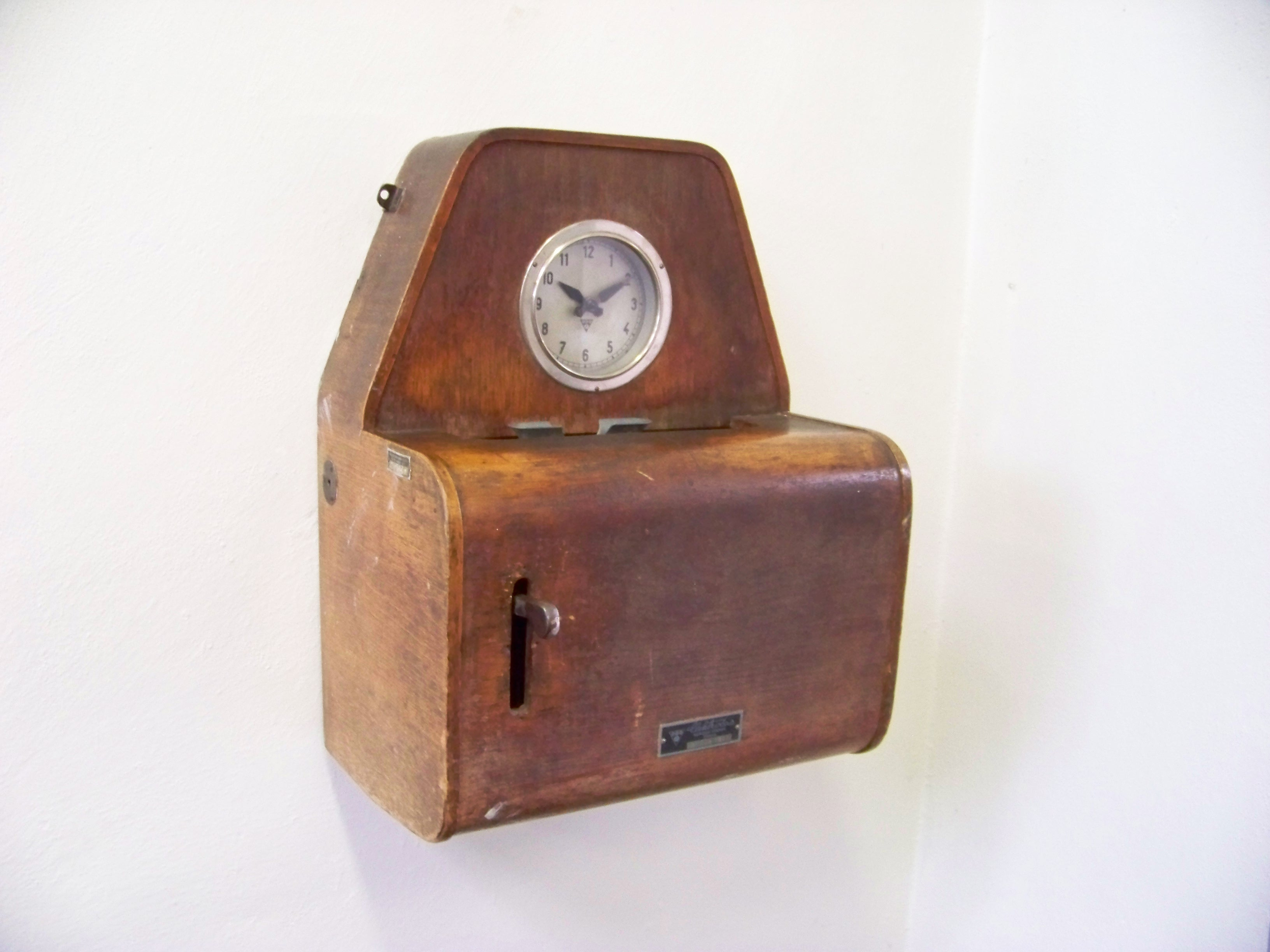 Prague-Střešovice, Czech Republic. Střešovice tram depot, Public Transport Museum. A time recorder.